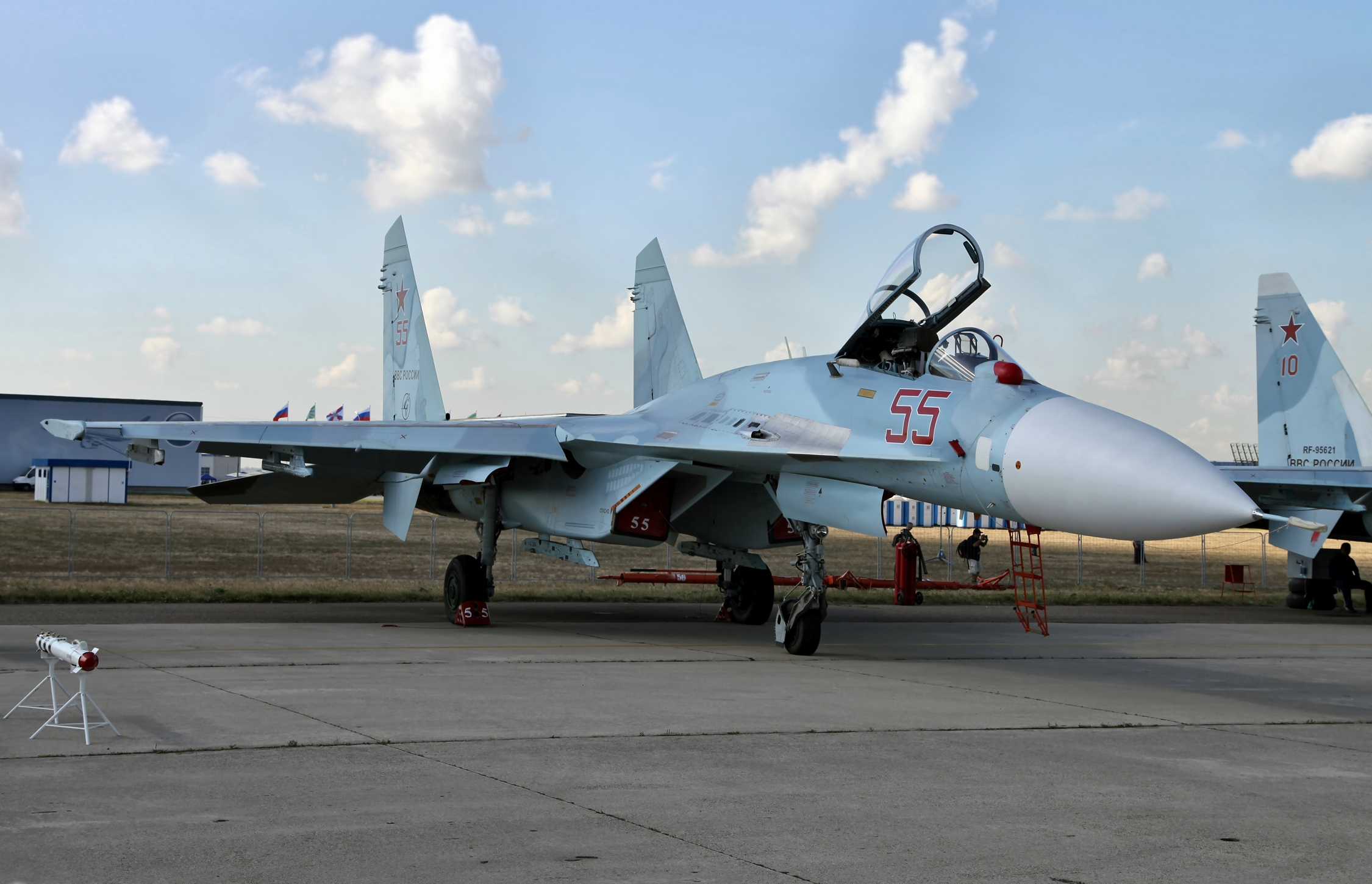 A Su-27SM3 at the Celebration of the 100th anniversary of Russian Air Force.